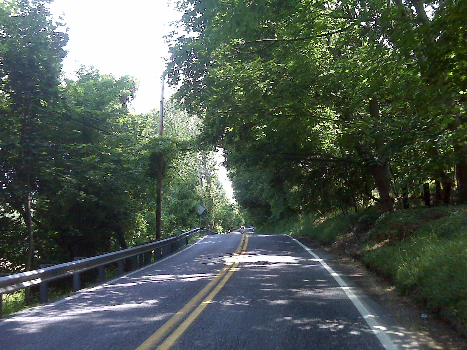 A picture of the Cromwell Bridge Road scenic area. The road is lined with trees and is very hilly and curvy with only two lanes. The road is situated on a slope which descends northward. To the right (south) is a transmission corridor, carried on tall metal poles.